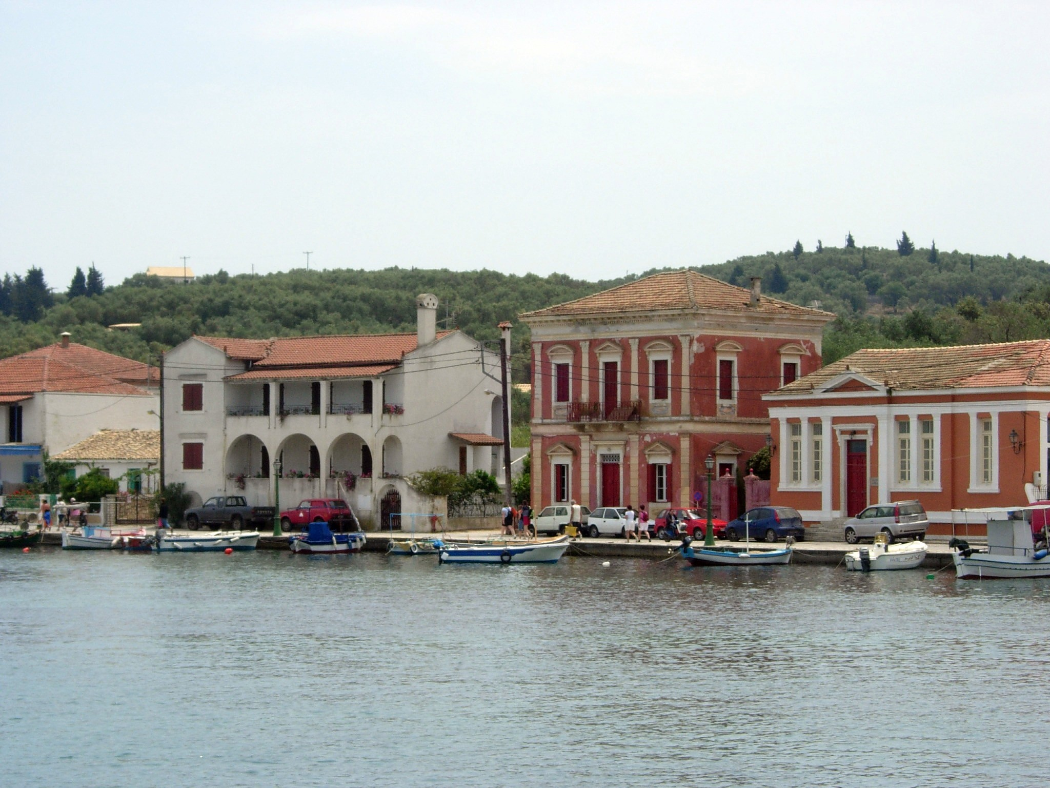 Buildings of Gaios by the sea.